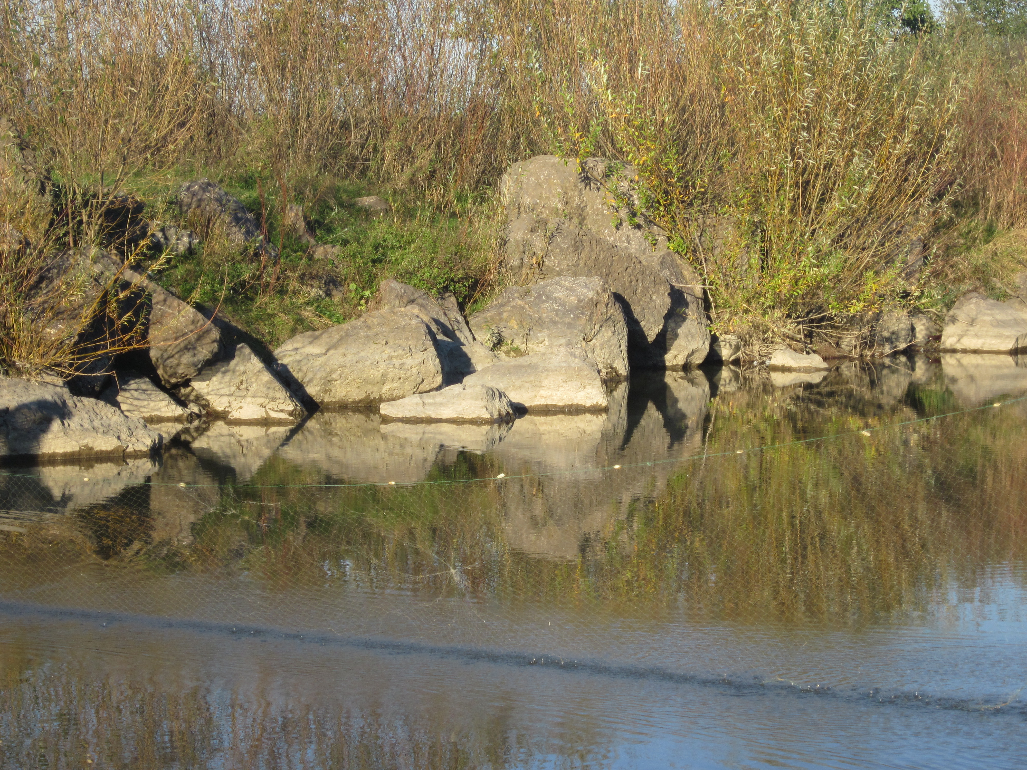 річка Луква біля села Комарів